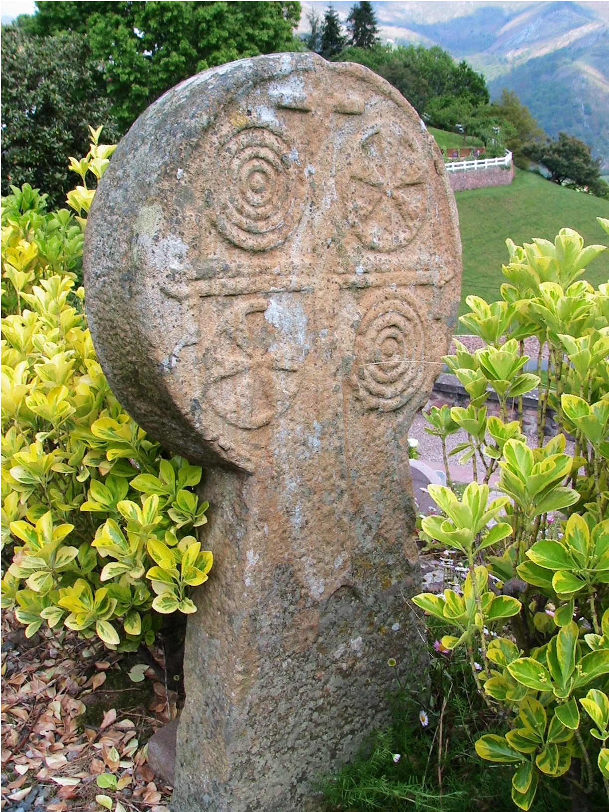 Hilarri in Bidarray, Lower Navarre, French Basque Country. Own work 2006.